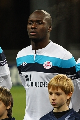 Senegelese football player Moussa Sow during 2011/2012 Champions League match between CSKA Moscow and Lille OSC